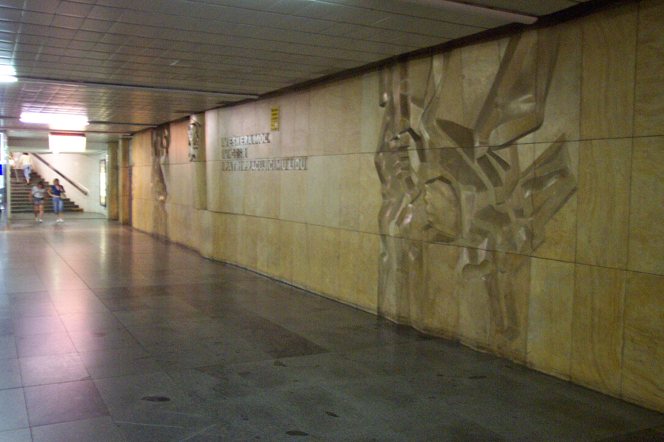 Metro station Hradčanská